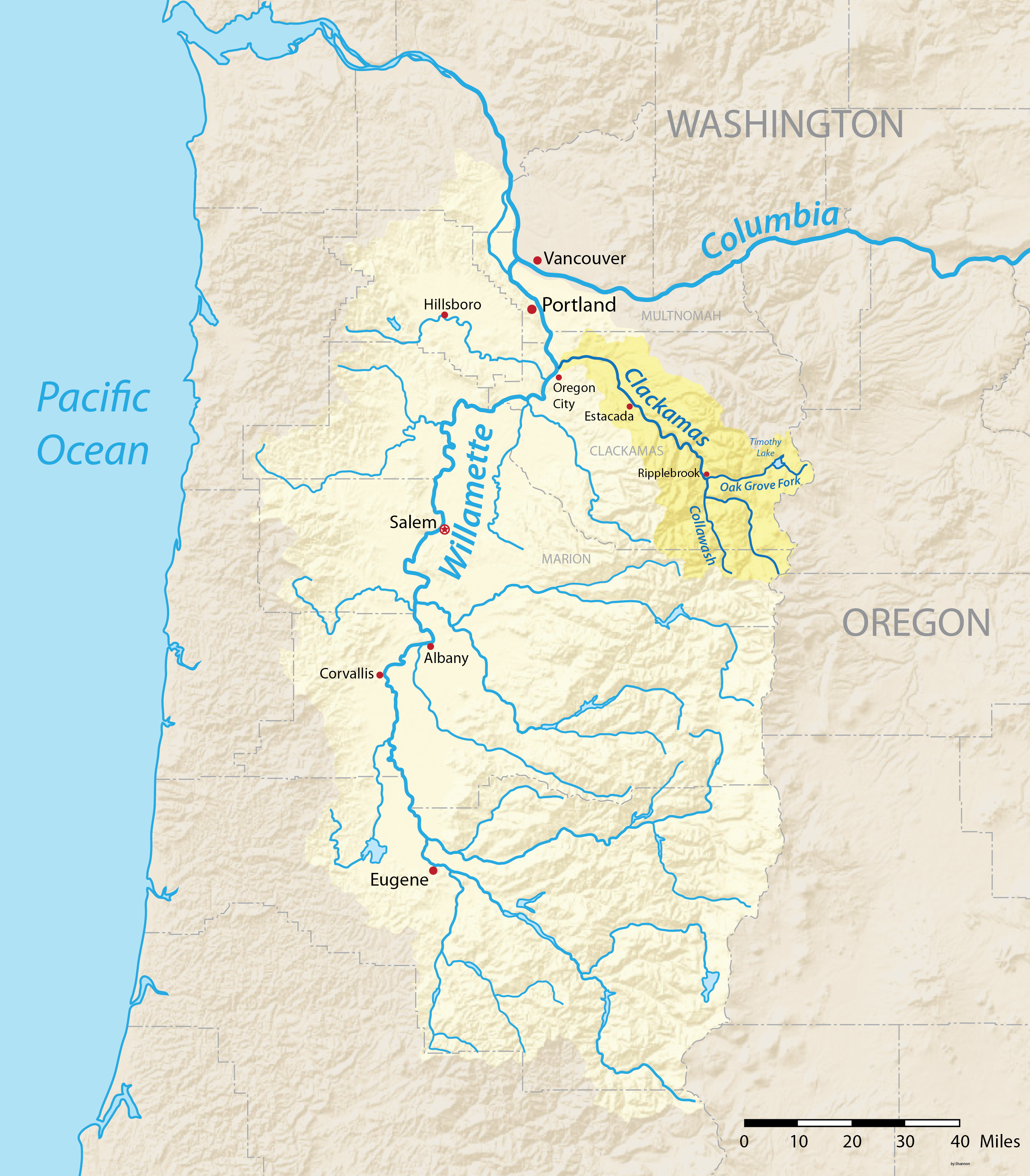 Map of the Willamette River Basin in Oregon, USA with the Clackamas River tributary highlighted in yellow. Made using USGS National Map data.